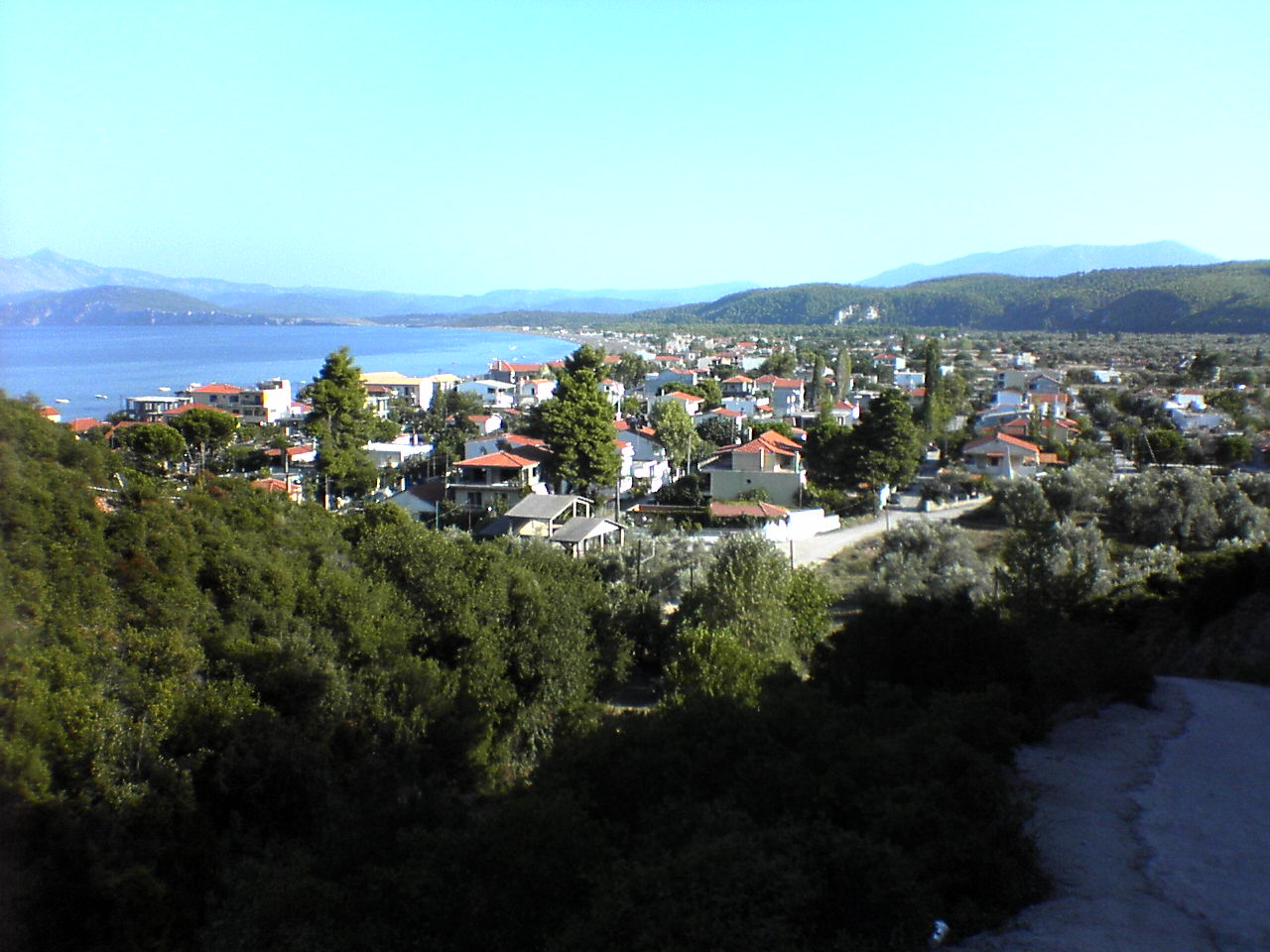 Agkali, village in Euboea, Greece